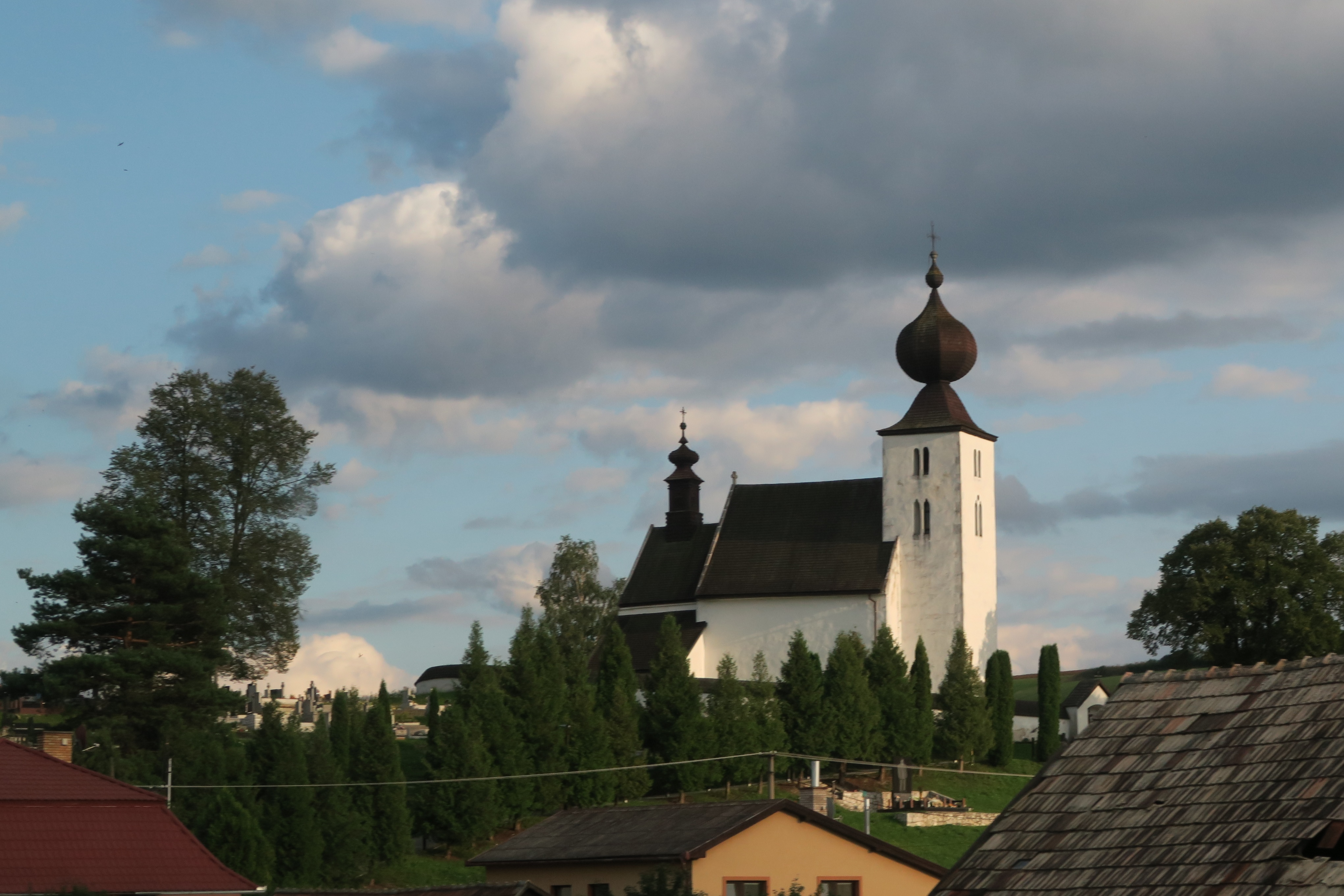 Holy Spirit Church of Žehra